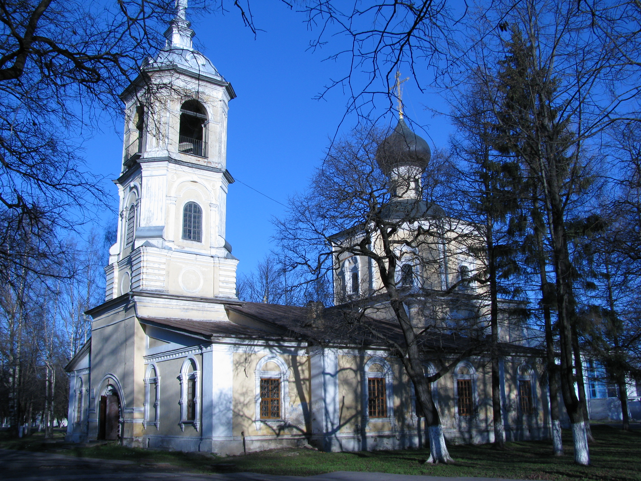 Church of Ioannis Prodromos in Vologda. South side.